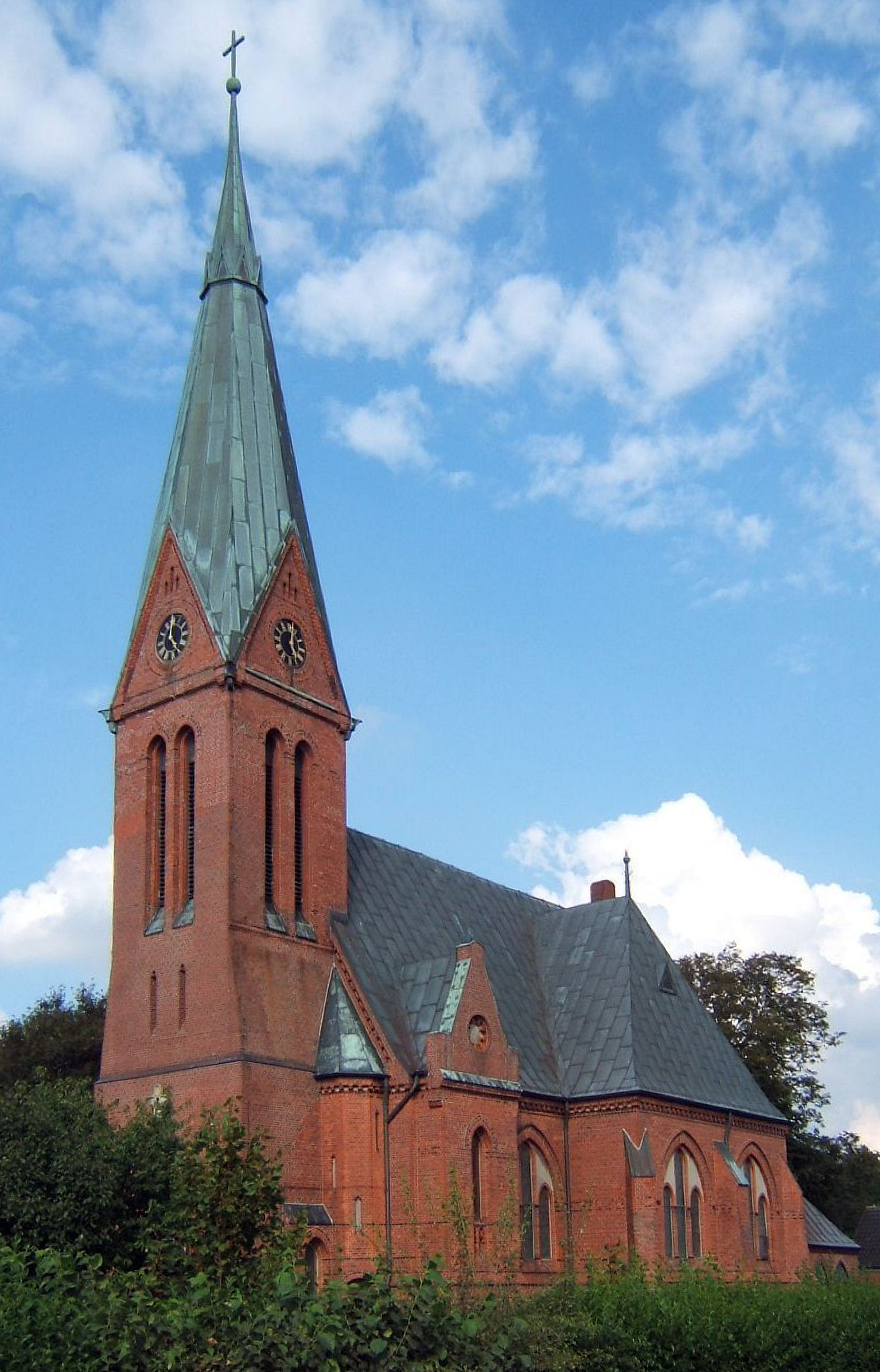 protestant Koogskirche at Kronprinzenkoog, Dithmarschen, Schleswig-Holstein, Germany, built in 1883, designed by the Berlin architect Johannes Vollmer